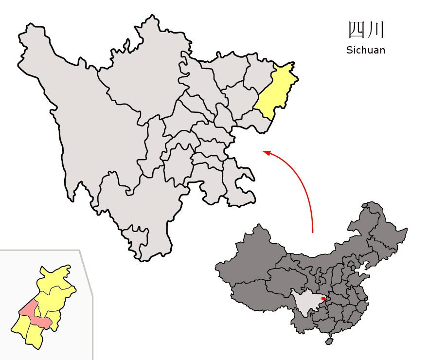 Location of Da County (pink) and Dazhou Prefecture (yellow) within Sichuan province of China Map drawn in october 2007 using various sources, mainly : Sichuan province administrative regions GIS data: 1:1M, County level, 1990 Sichuan Counties map from